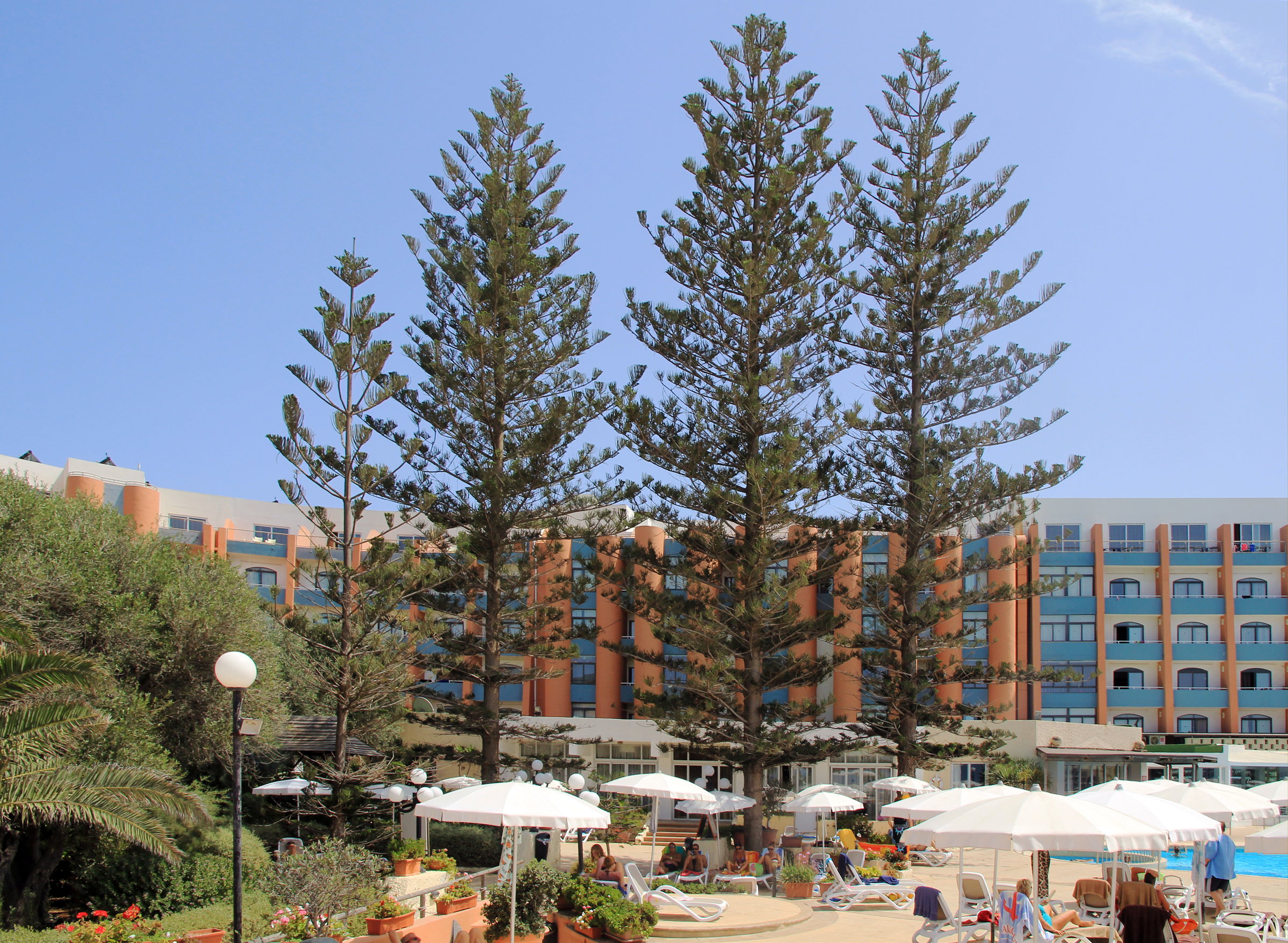 Interior of Hotel Dolmen Resort with great araucaria trees, Bugibba, Malta